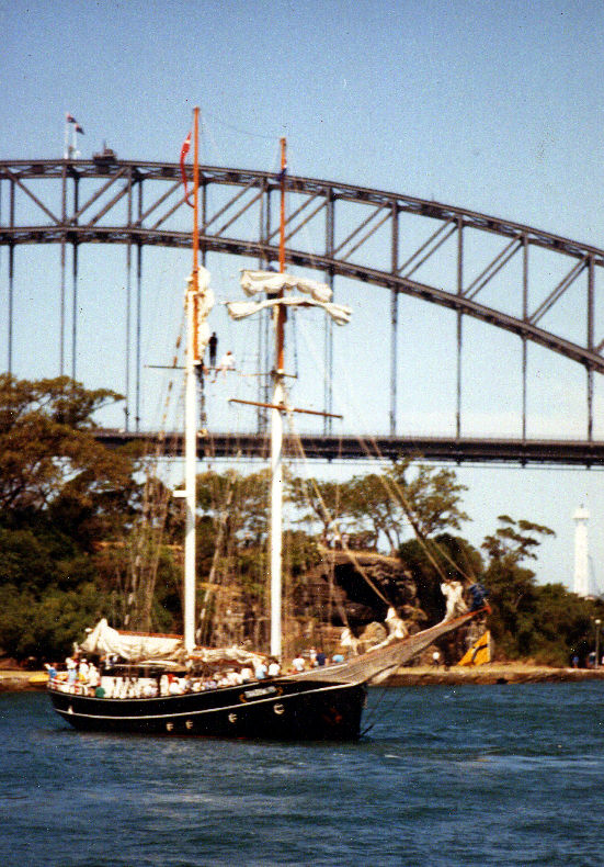 This digital image was scanned by me from a photograph made by me. It is of the SV Tradewind in Sydney Harbour.